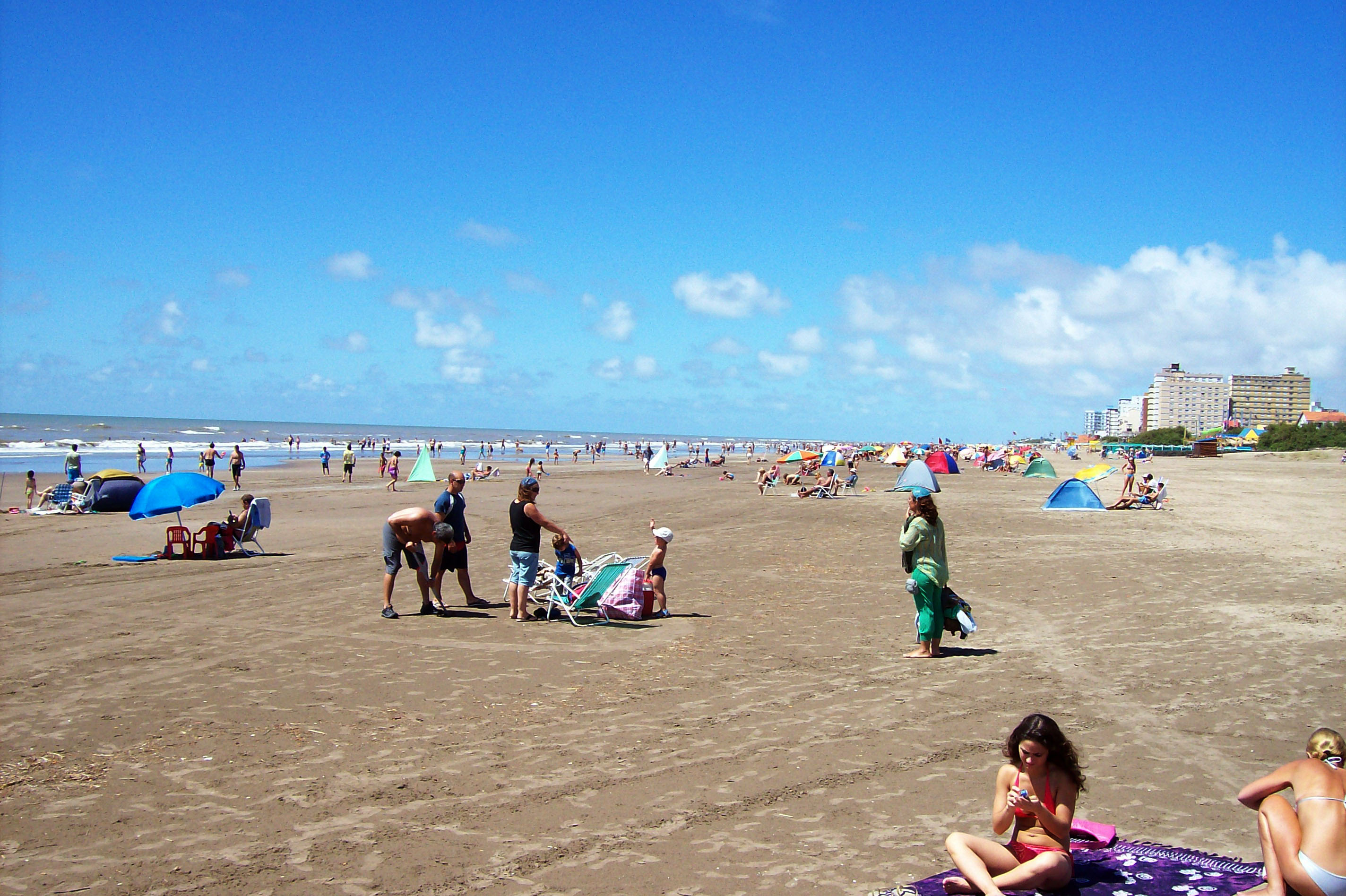 Tourists at a beach in Mar de Ajó, Buenos Aires province, Argentina.